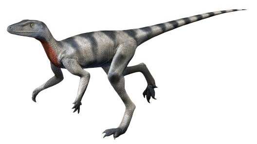 Life reconstruction of Saltopus elginensis